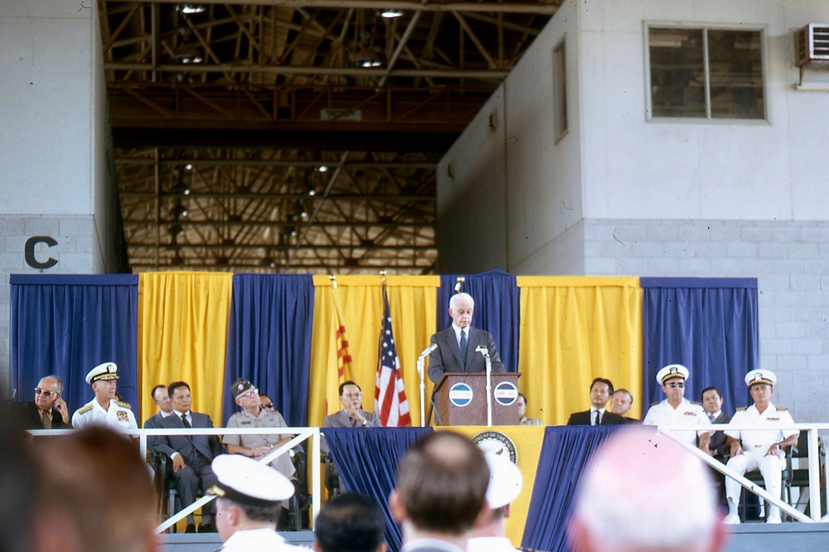 Ambassador Ellsworth Bunker addresses the close-out ceremony of the $2 billion RMK-BRJ construction contract on 3 July 1972 in Saigon